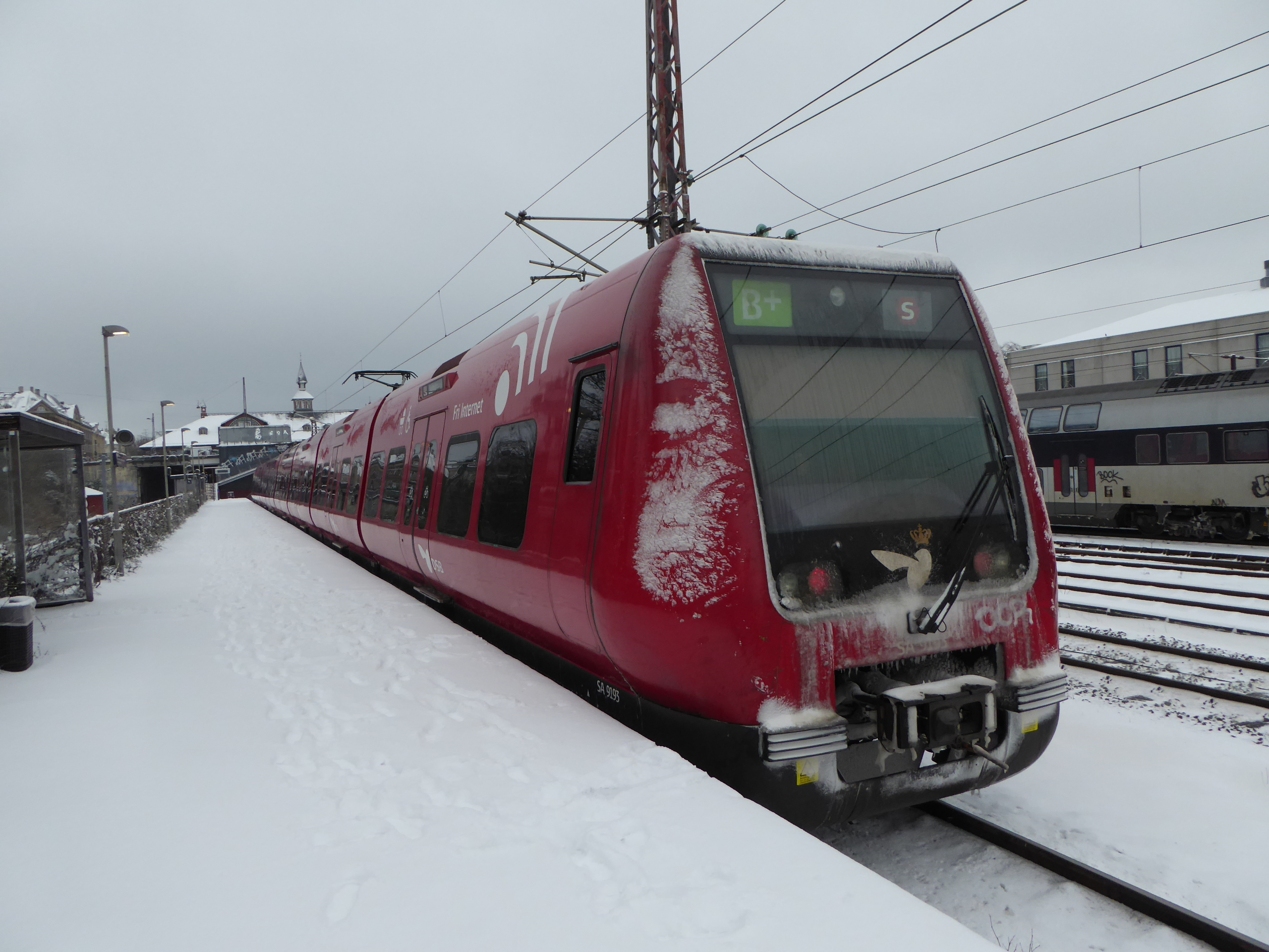 Østerport Station in Østerbro in Copenhagen with snow. The rollsign of a S-train on line H is rolling and briefly shows line B+, which was closed in 2007.